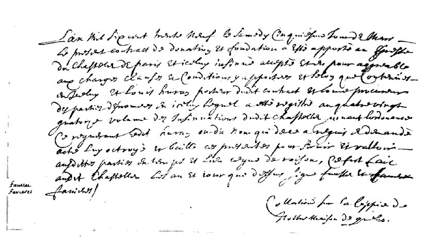 Photographic facsimile of Du Quen’s handwriting, selected from his copy of Chevalier de Sillery’s donation to the Jesuits, dated Paris, Feb. 22, 1639 Frontispiece, 300dpi printable 4MB, (actual is aprox 177dpi but so you may want to play with for printing), Society of Jesus (c) 1639